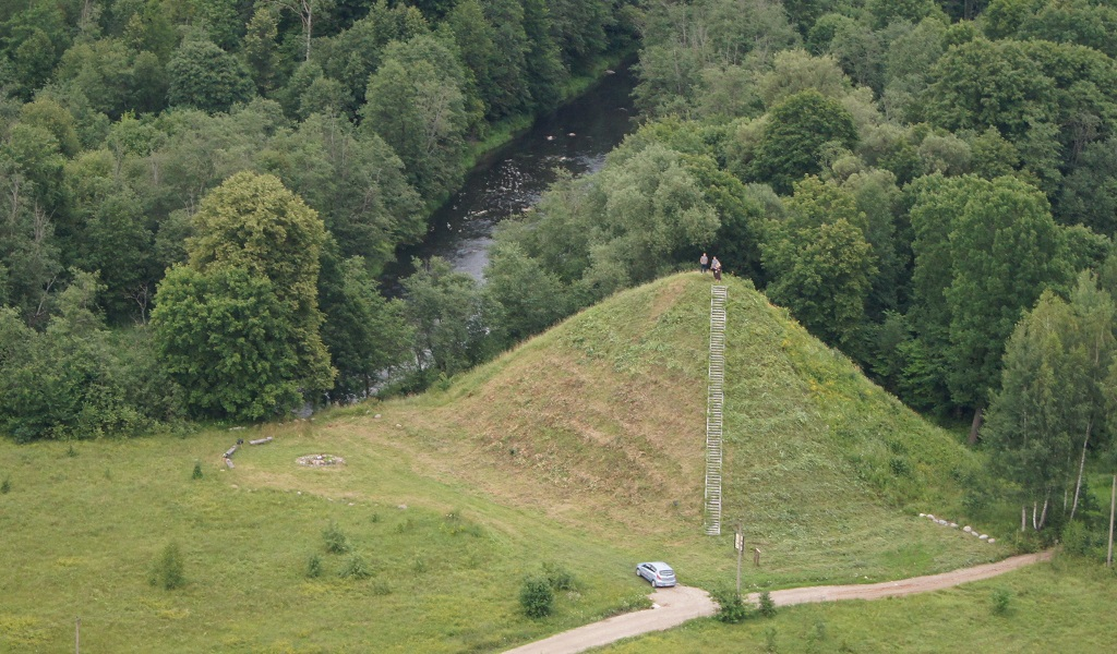 Hillfort Paverknių piliakalnis with river Verknė, Lihuania